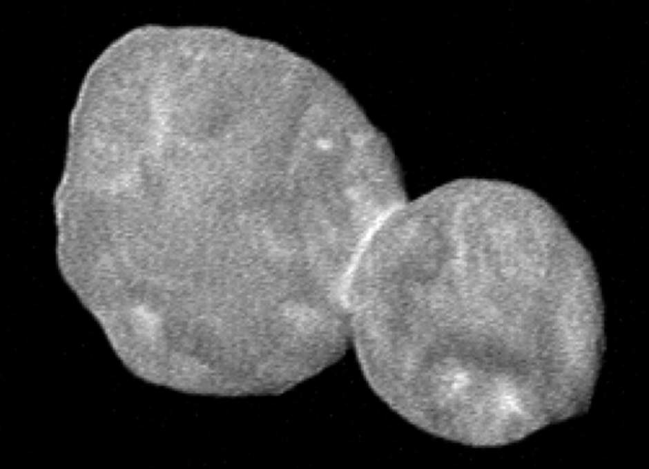 New Horizons image of Ultima Thule.